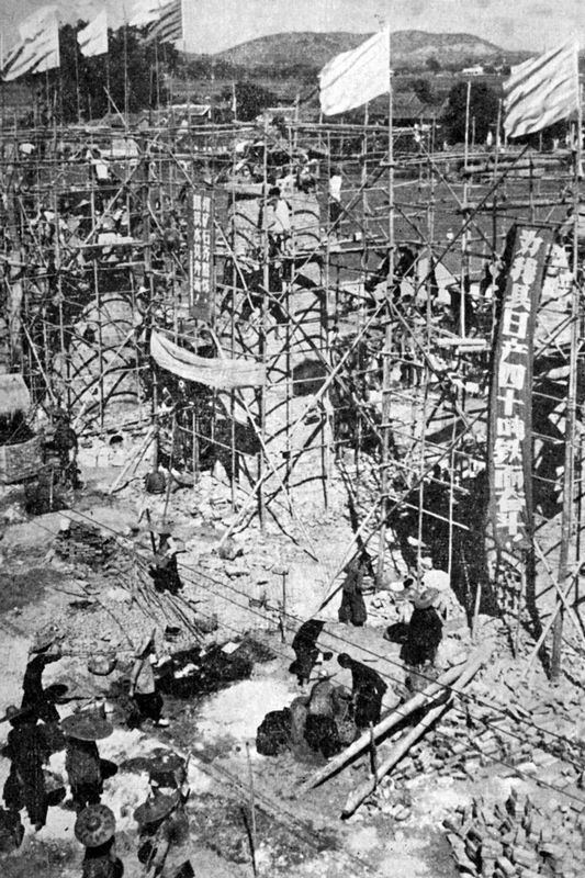 During 1958-1960 Great Leap Forward era, Chinese were using backyard furnaces to produce steel, instead, useless pig iron were produced.